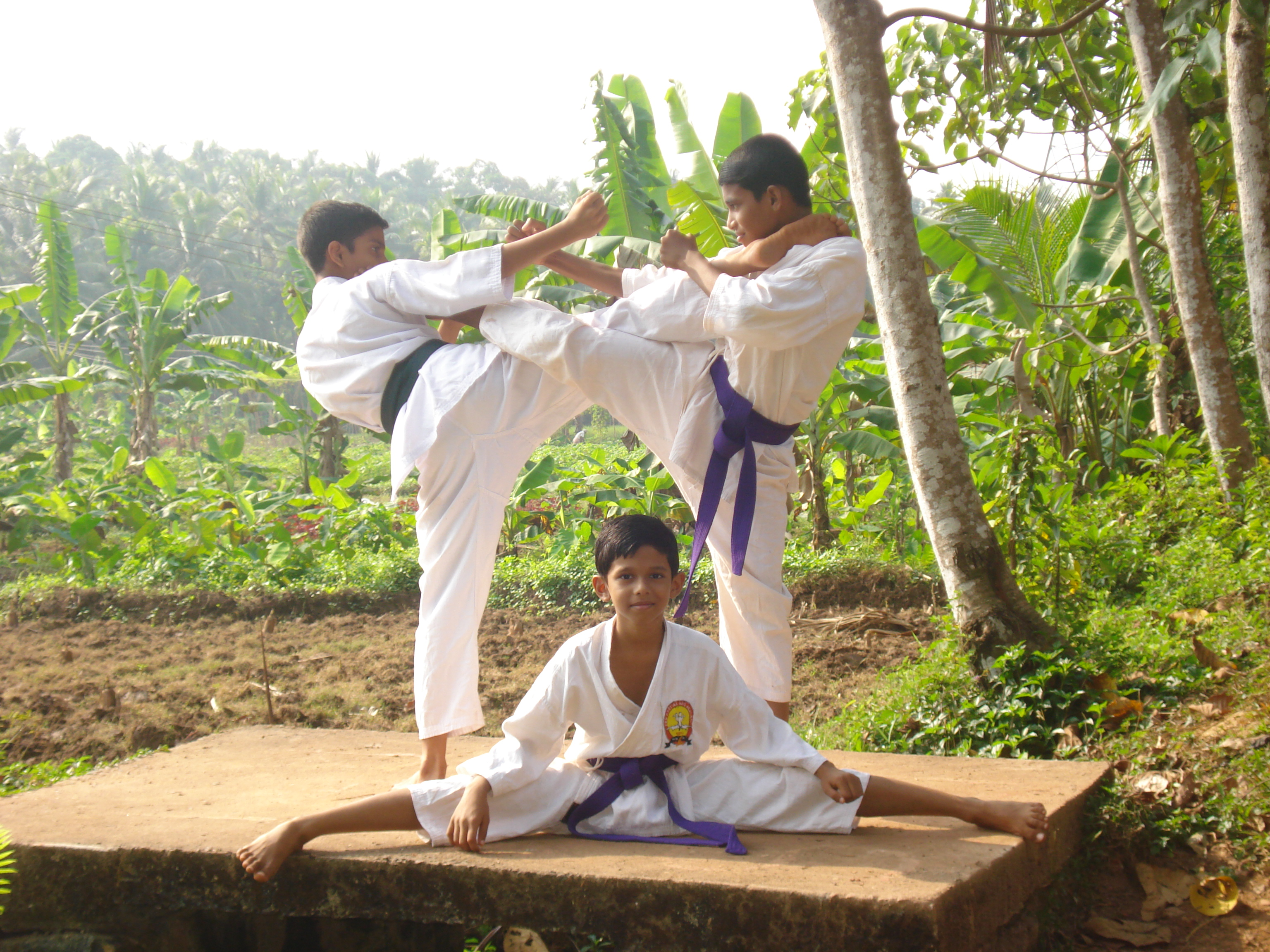 Children coming out after practicing karate in the village. Now they are displaying their karate.